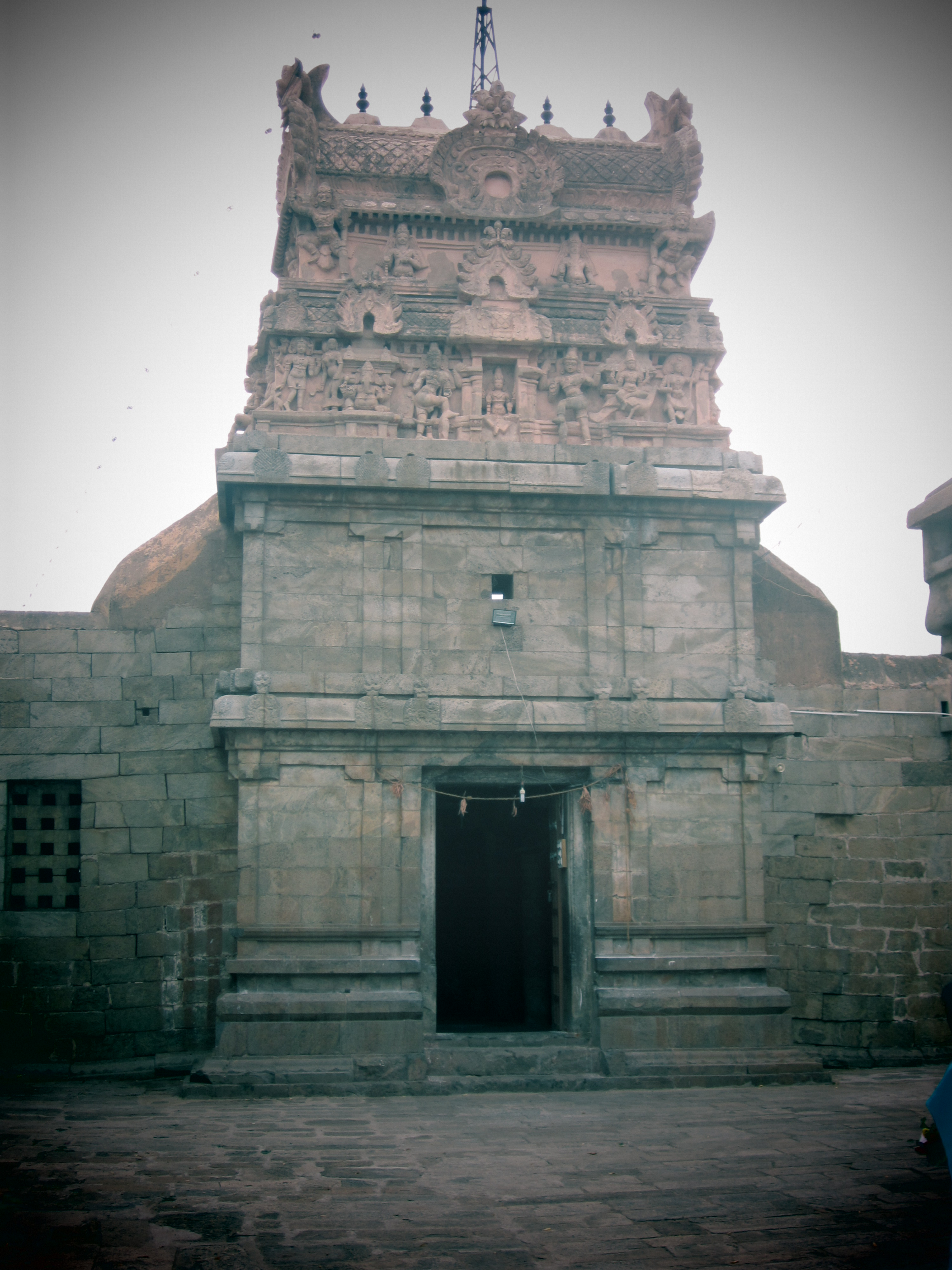 The outlook of Erumbiswara Temple alone